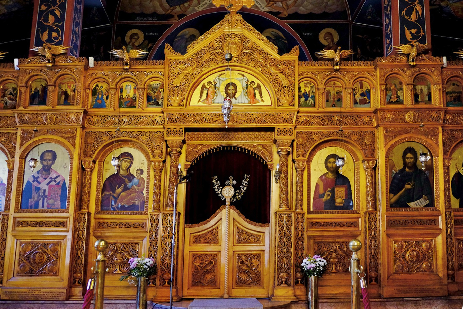 The wooden temple of St. St. John the Chysostom church, Preveza, northwestern Greece. The Templon was carved in 1977.